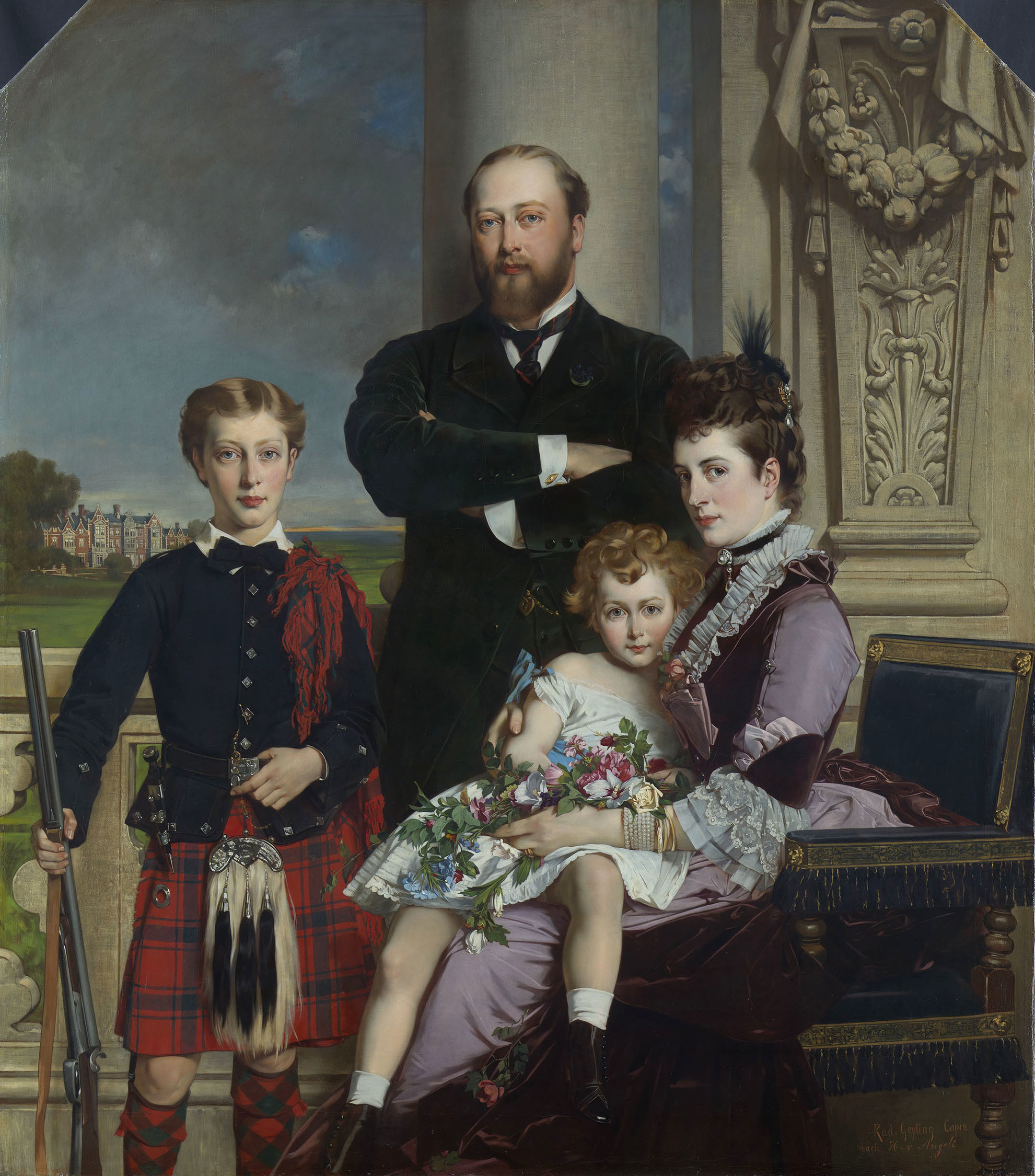 Portrait a The Family of Albert Edward, Prince of Wales, later King Edward VII